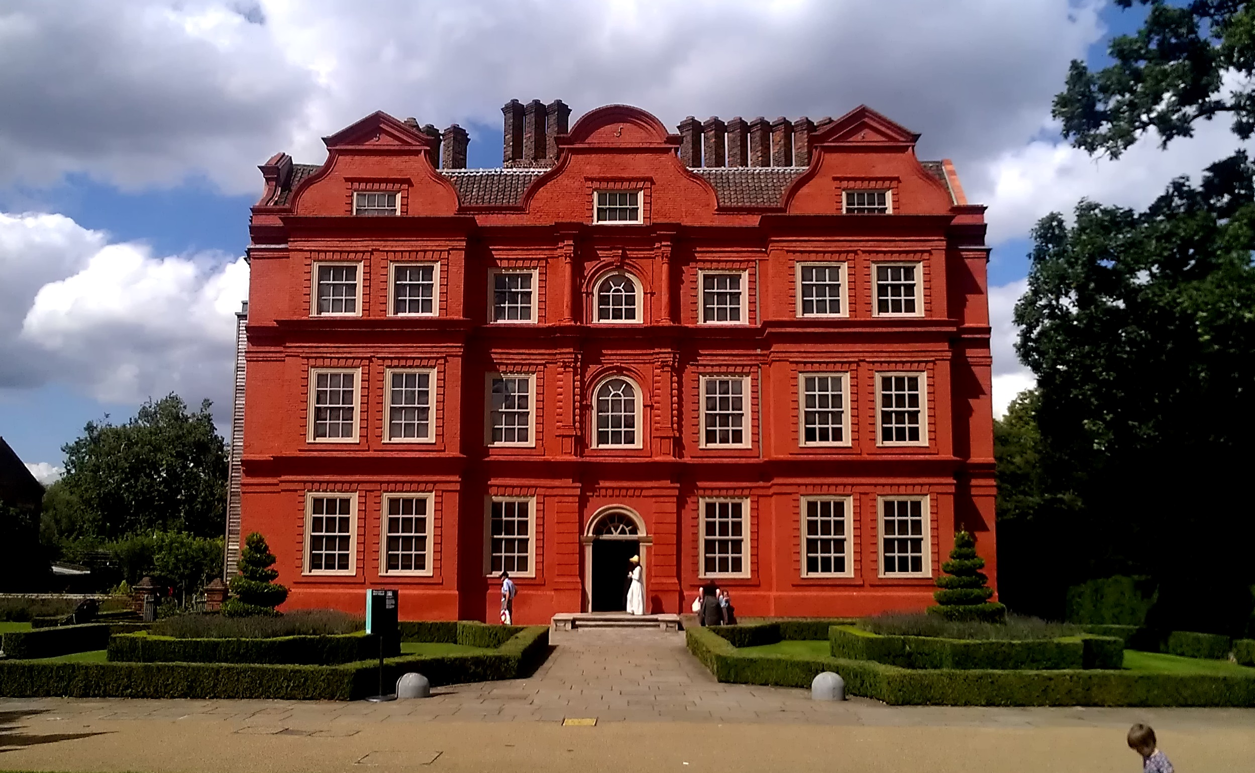 The Dutch House at Kew Palace in southwest London.